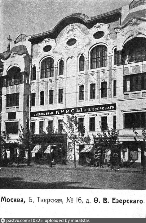 The first Russian courses of bookkeeping of Feodor Jezerski, Moscow, Tverskaya str. 16